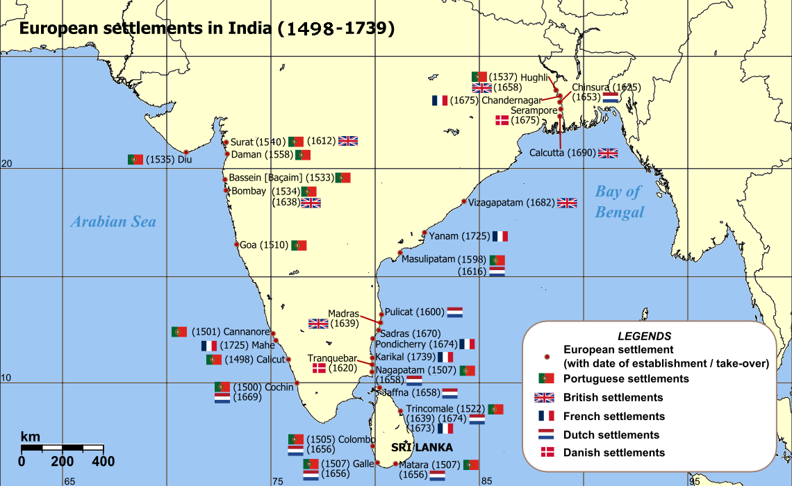 Map of India with Sri Lanka, illustrating locations of European settlements in the subcontinent between 1498 and 1739. Map reference: [1] at University of Pennsylvania, with reference varification from: [2] (URL accessed: 23-Mar-2006)EricSRodrigues154 03:28, 21 September 2007 (UTC) File links The following pages on the English Wikipedia link to this file (pages on other projects are not listed): Dutch East India Company Honourable East India Company French East India Company Company rule in India Portuguese India Tharangambadi Danish East India Company Colonial India Danish colonial empire Danish India